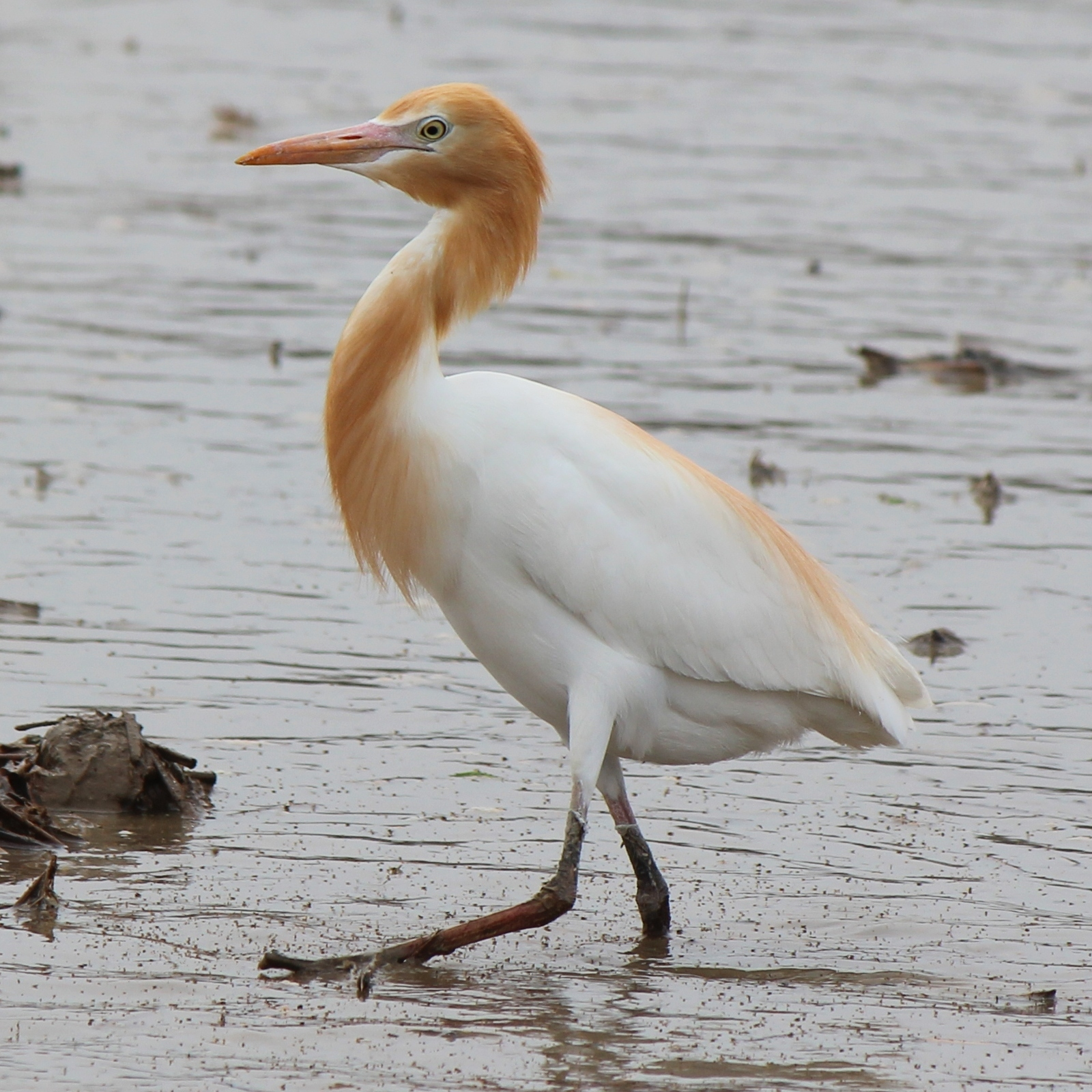 Bubulcus coromandus (Eastern Cattle Egret), summer plumage walking in Japan